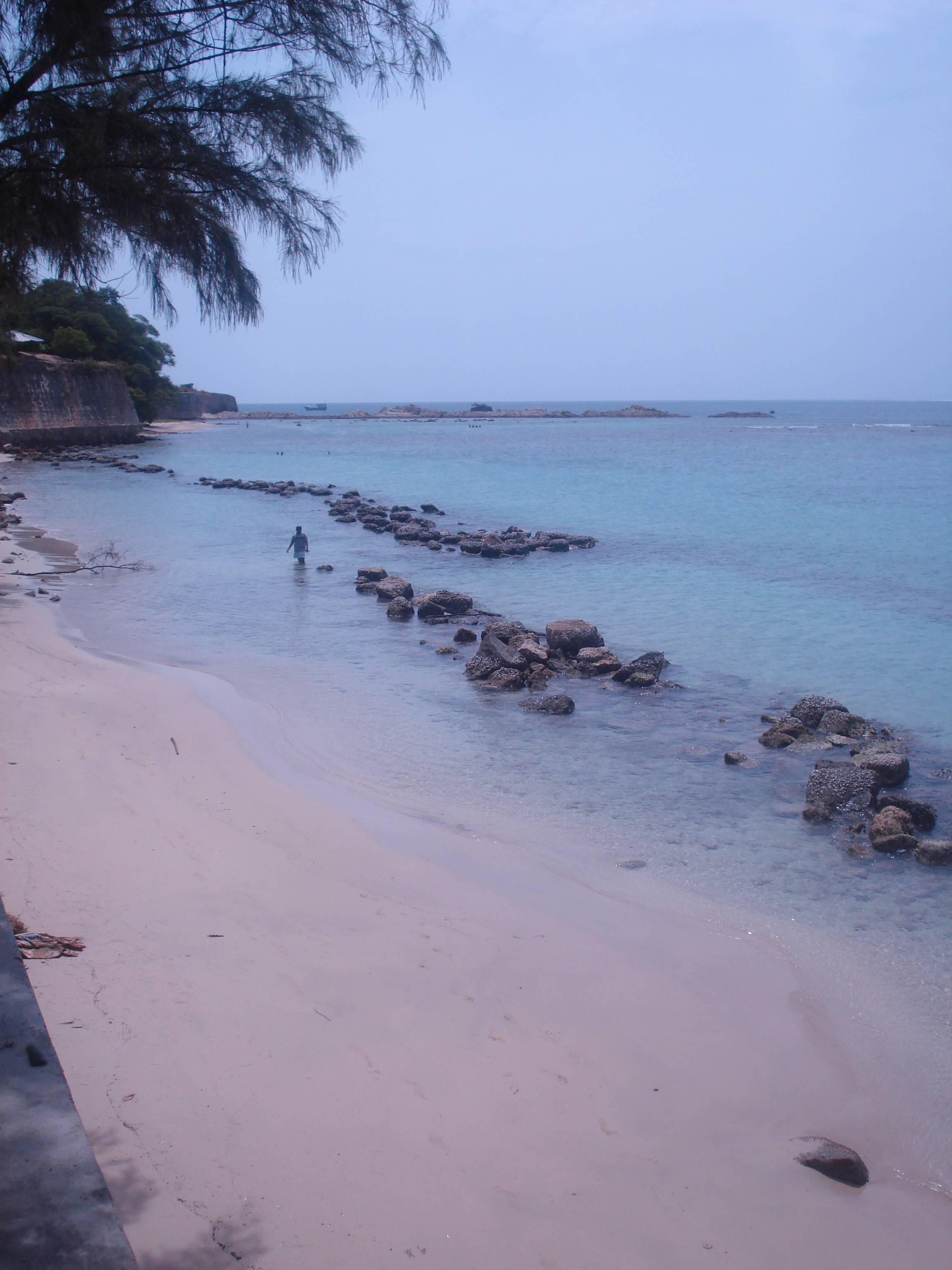 The Trincomalee beach